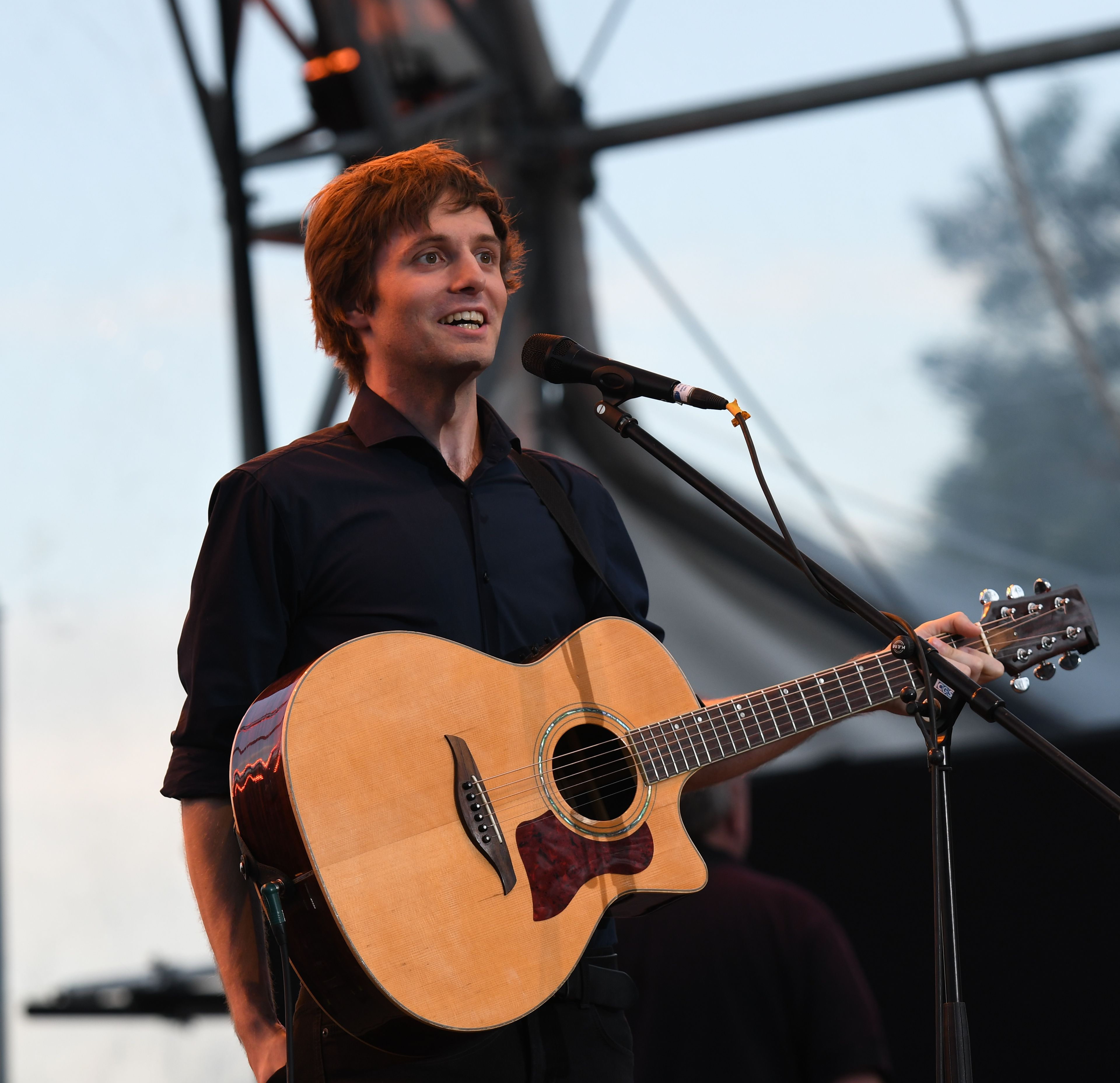 Lennart Schilgen at Lieder auf Banz, July 2019